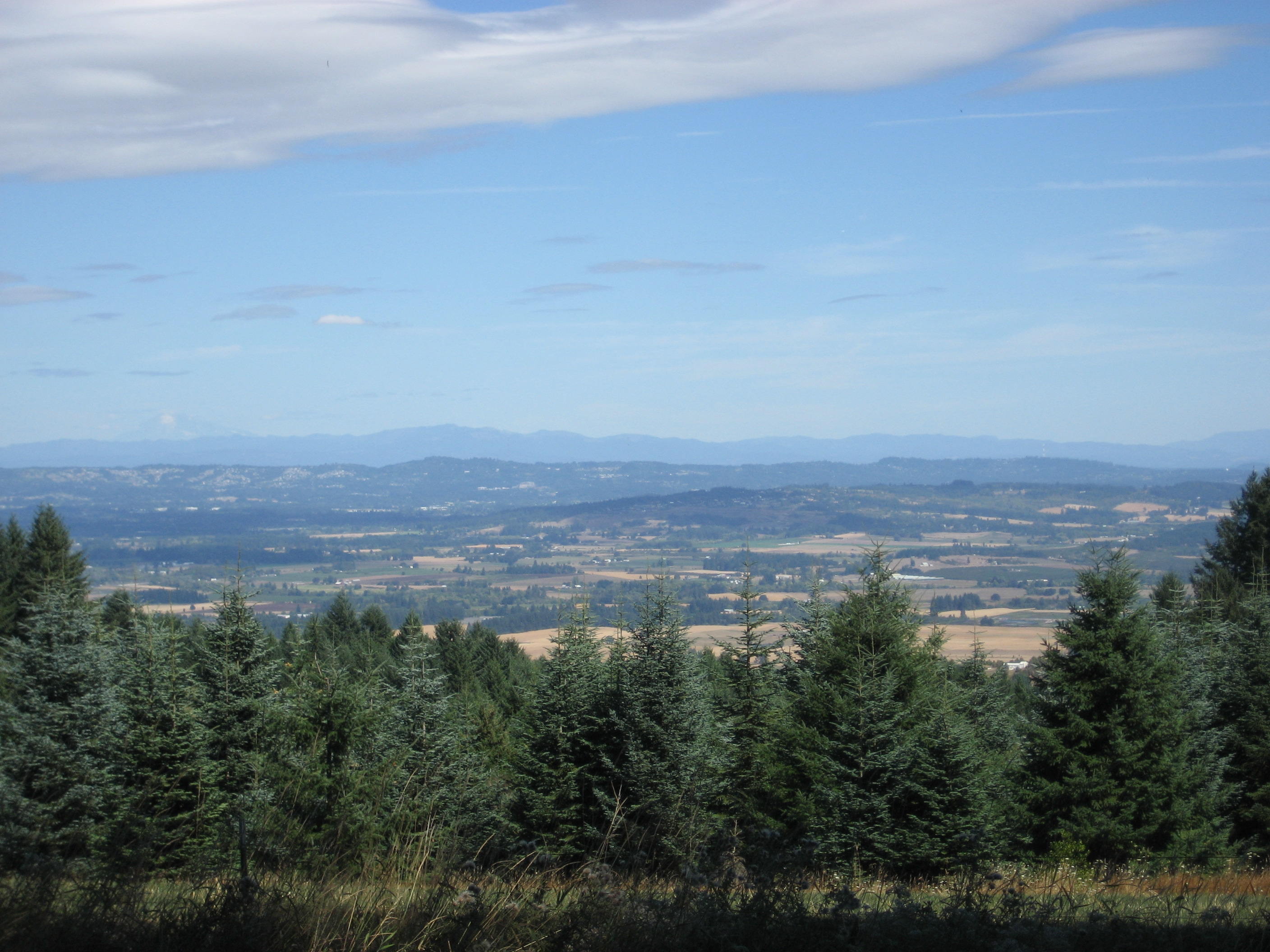 Taken from Bald Peak State Scenic Viewpoint in Oregon, overlooking the Tualatin Valley.